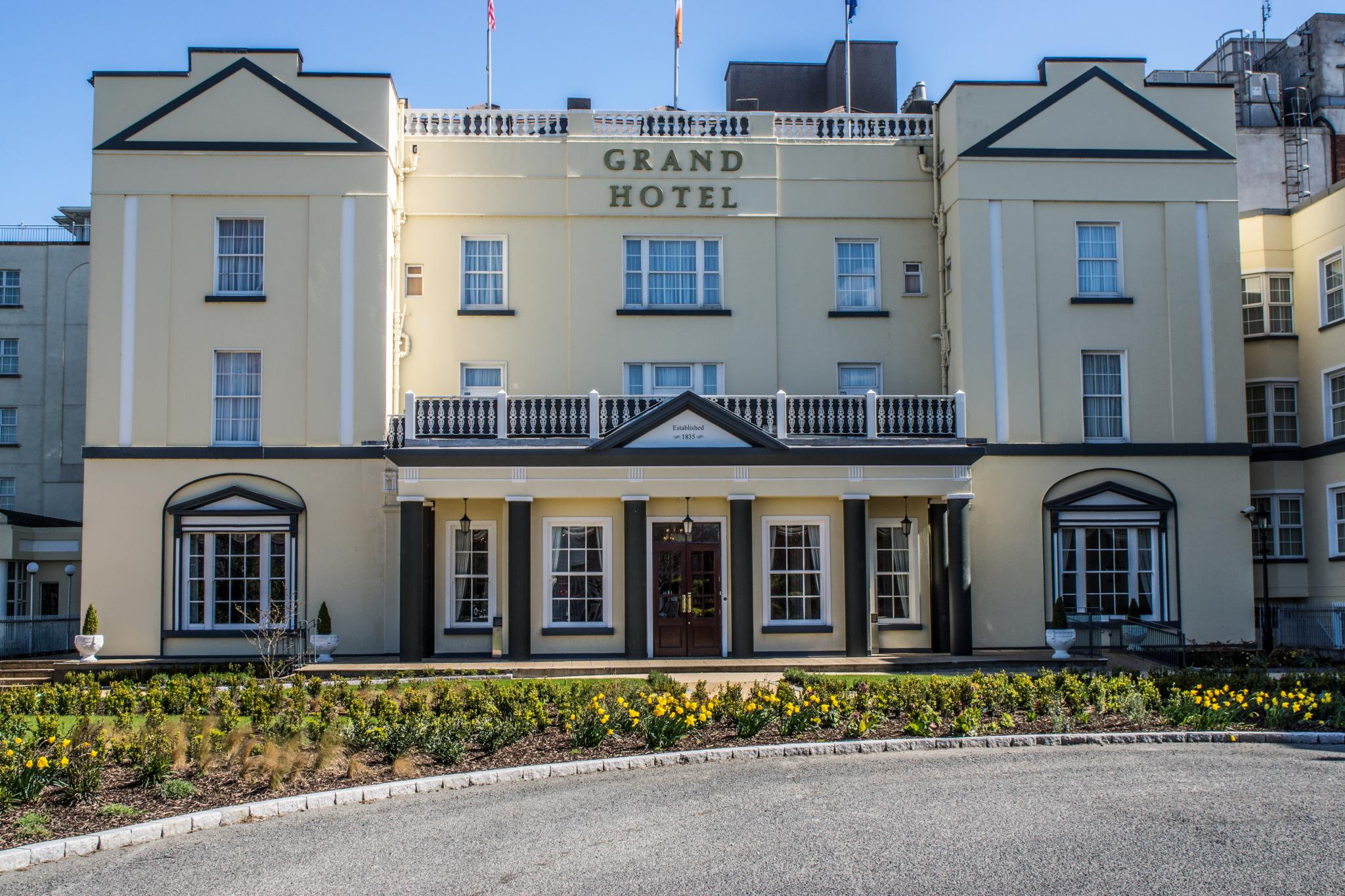 Grand Hotel Malahide April 2013